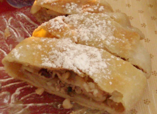 Apple Strudel from "pulled" dough